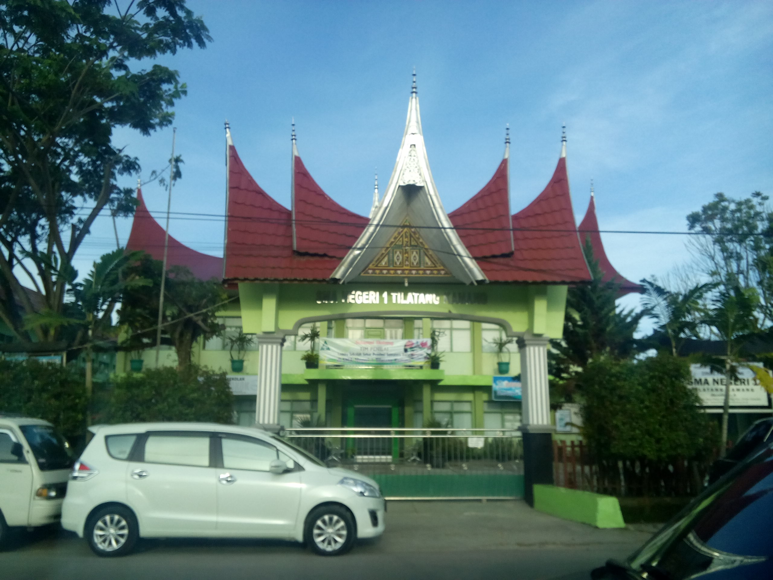 Gate of SMA Negeri 1 Tilatang Kamang, a state senior high school in, West Sumatra, Indonesia.